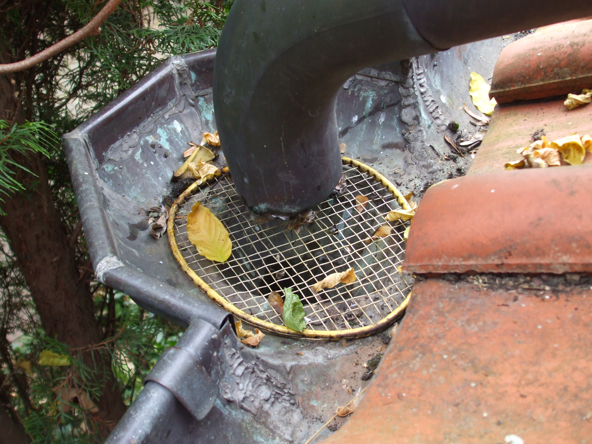 Rainwater Sieves